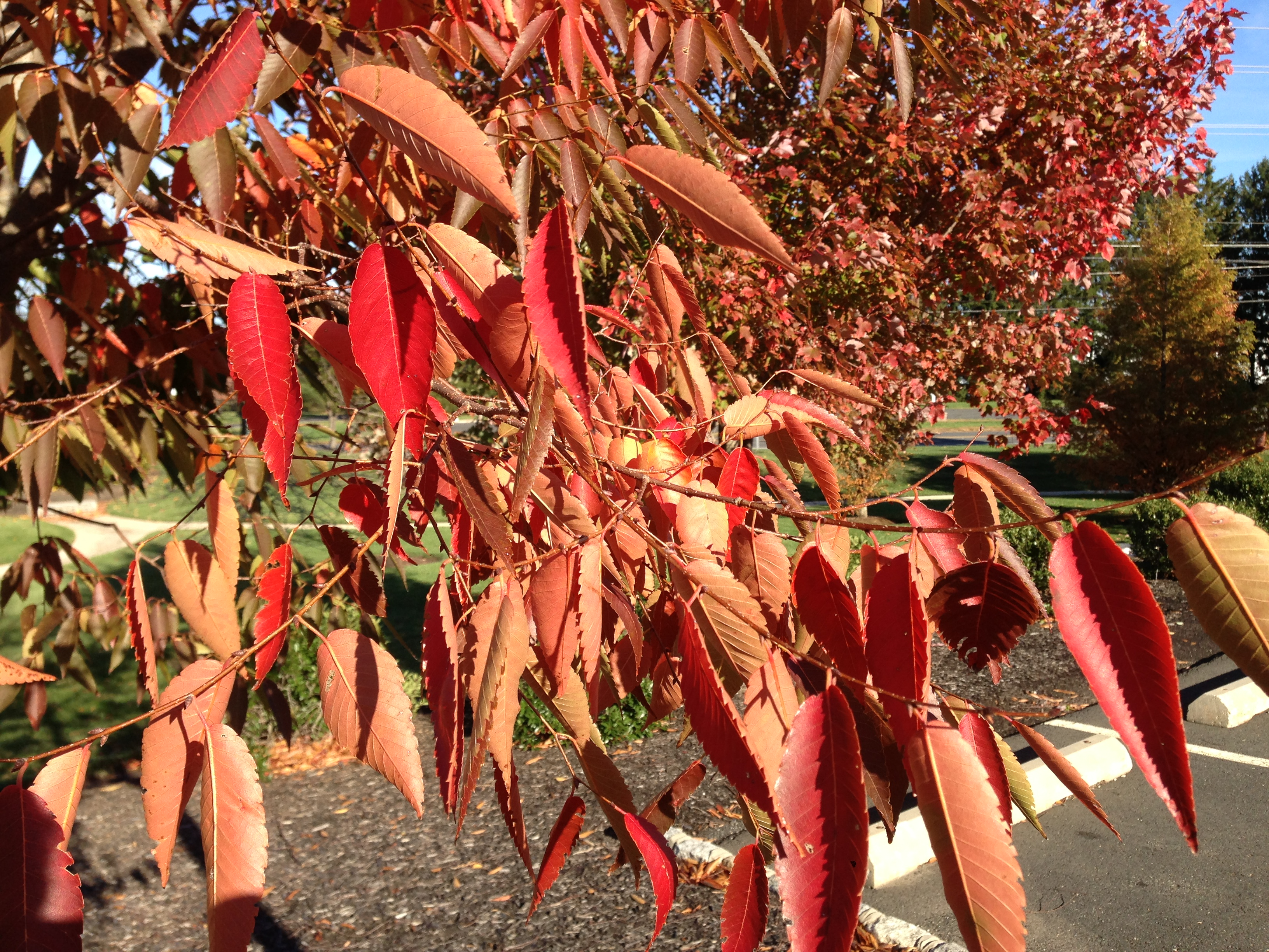 Zelkova foliage during autumn along Woosamonsa Road in Hopewell Township, New Jersey